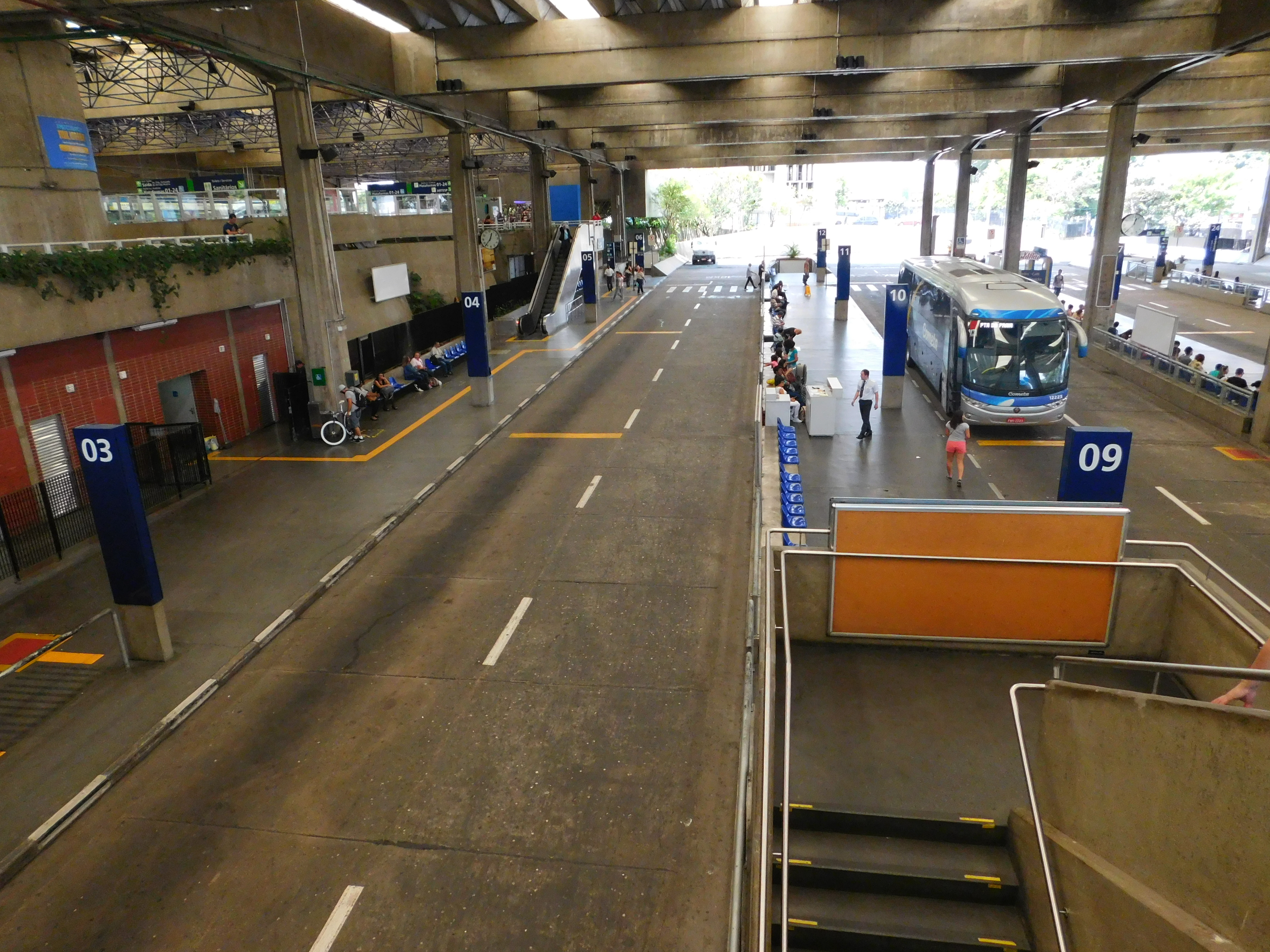 Jabaquara Intermunicipal Terminal is an intermunicipal bus terminal in São Paulo, Brazil. Along with the Tietê Bus Terminal and the Palmeiras-Barra Funda Intermodal Terminal, it is one of the most important bus terminals in the State of São Paulo.